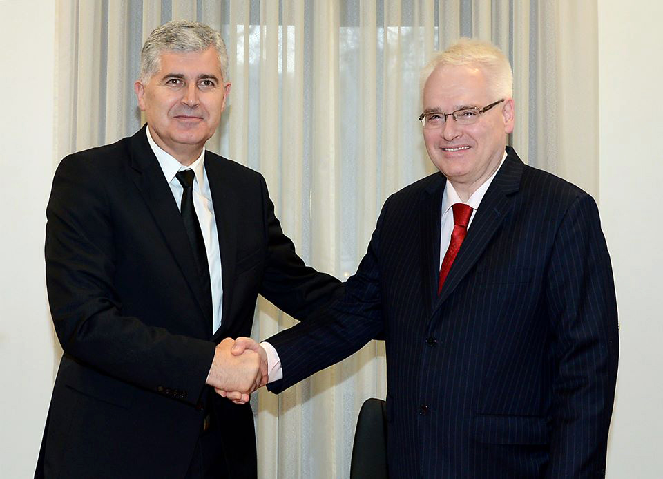 Croat member of the Presidency of Bosnia and Herzegovina Dragan Čović with the Croatian president Ivo Josipović in Mostar during an unofficial visit.